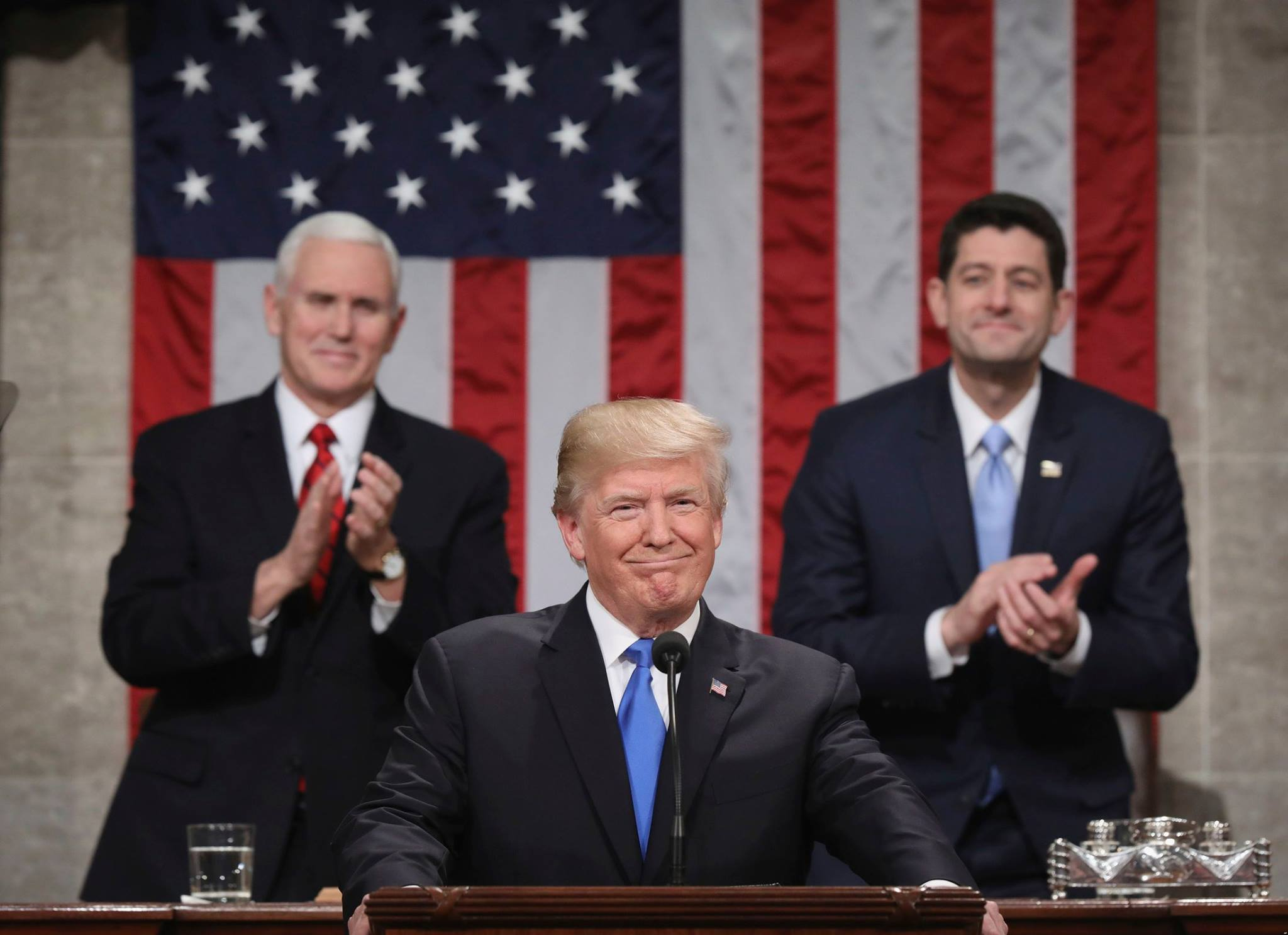 2018 SOTU